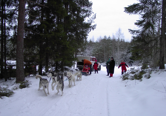 Siberian Husky at work